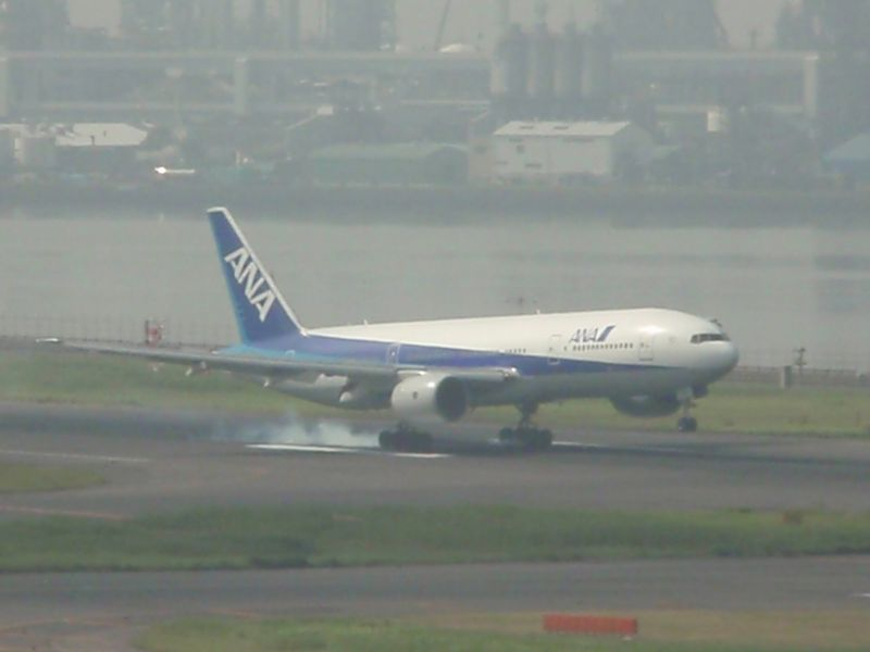 All Nippon Aieways Boeing777-281 is landing Tokyo Intl. Airport runway 34L.